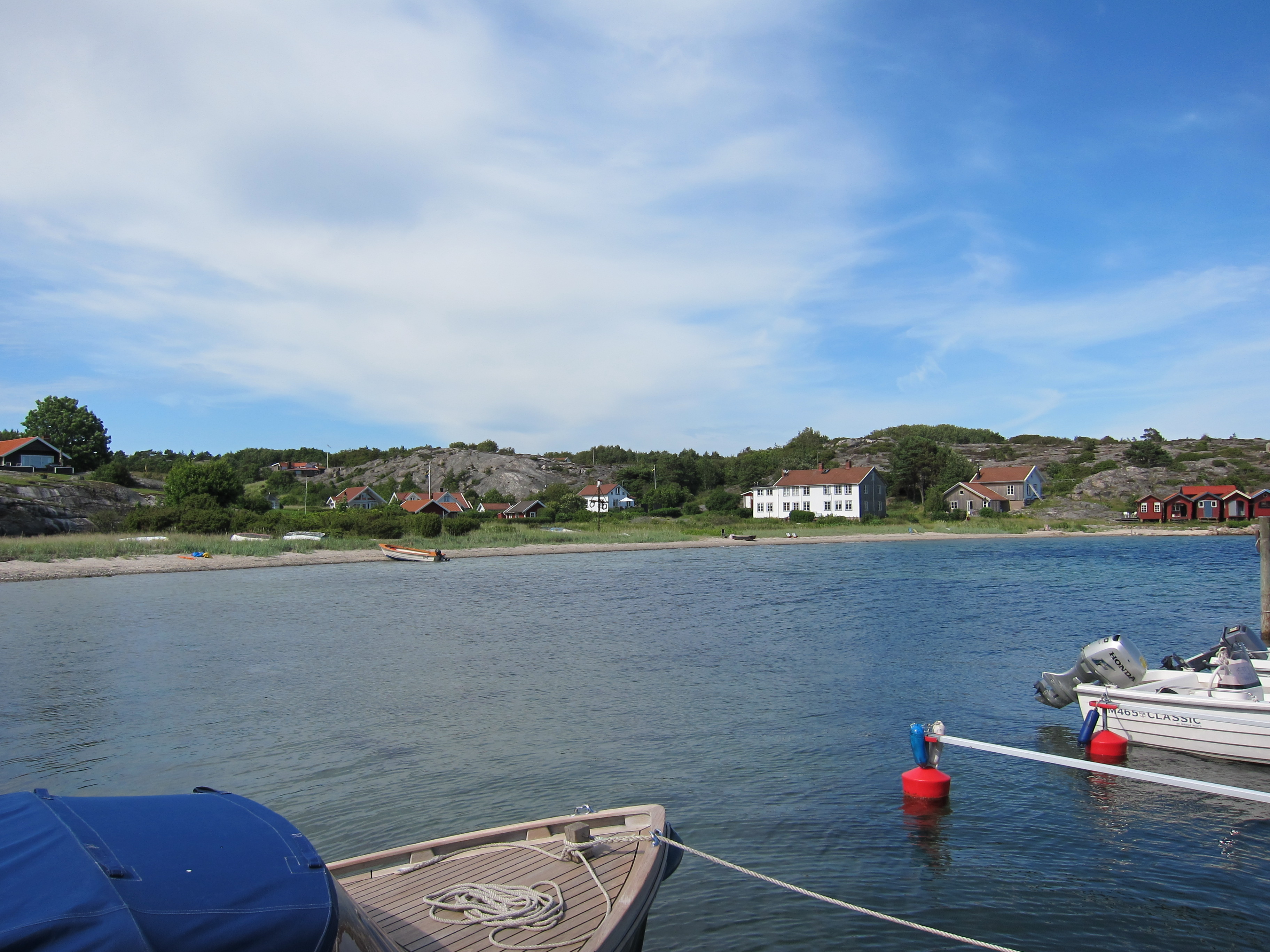 The island of Otterön, outside of grebbestad, sweden